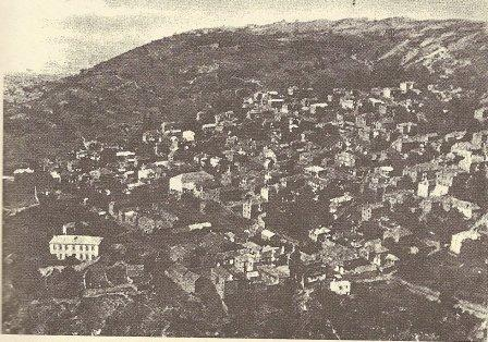 Pic taken 1890